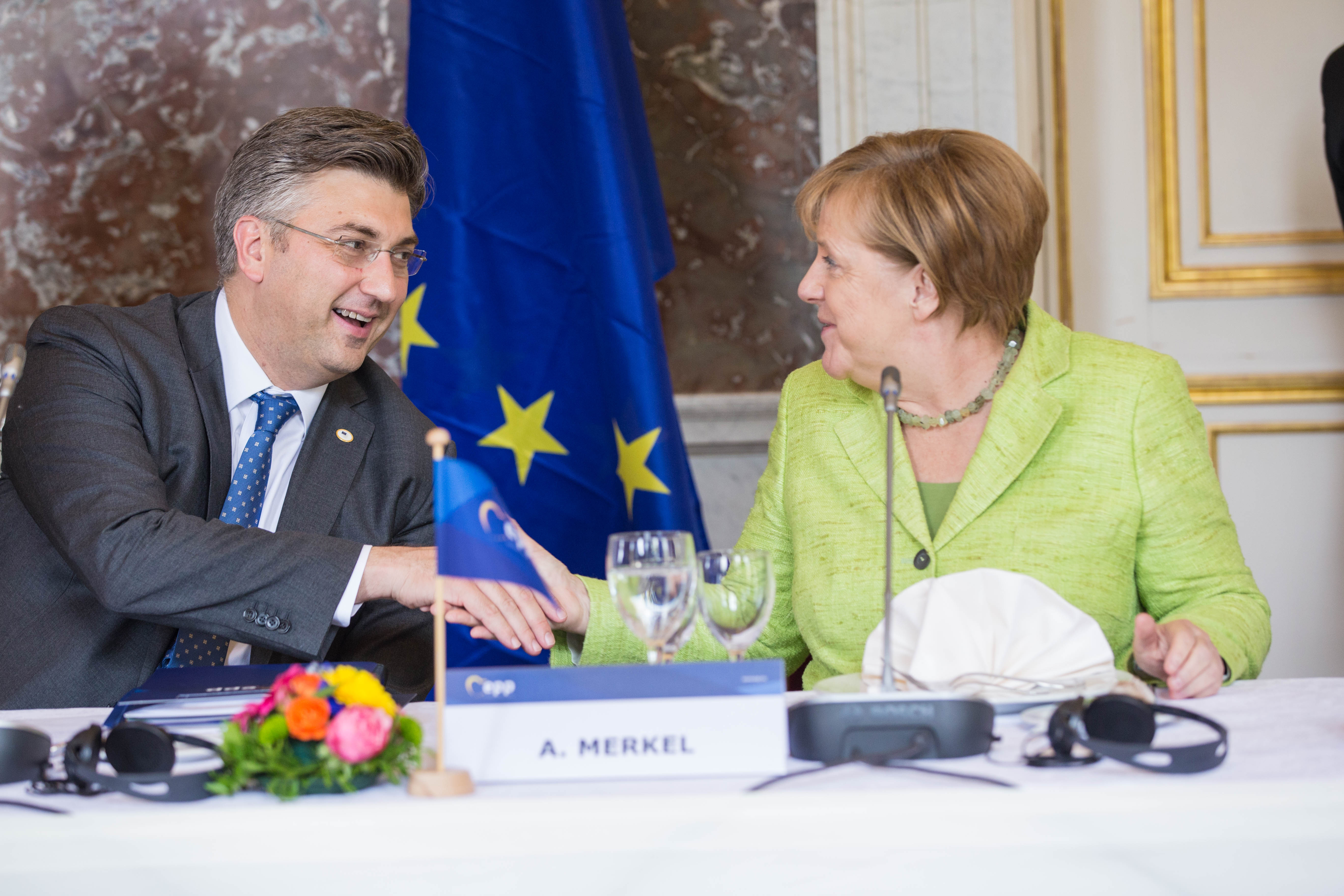 European People's Party Summit in Brussels, June 2017.